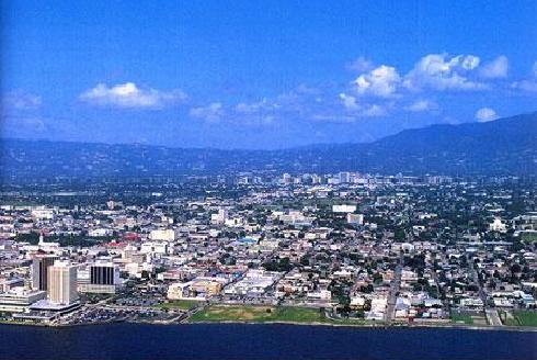 Photo of the city of Kingston taken from a Jamaica Defence Force helicopter flying into the mainland from sea and further edited to achieve an appropriate size